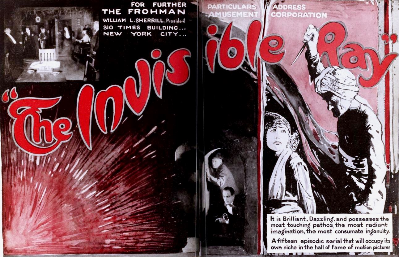 Advertisement for the American science fiction film serial The Invisible Ray (1920), from the insert after page 82 of the January 17, 1920 Exhibitors Herald.